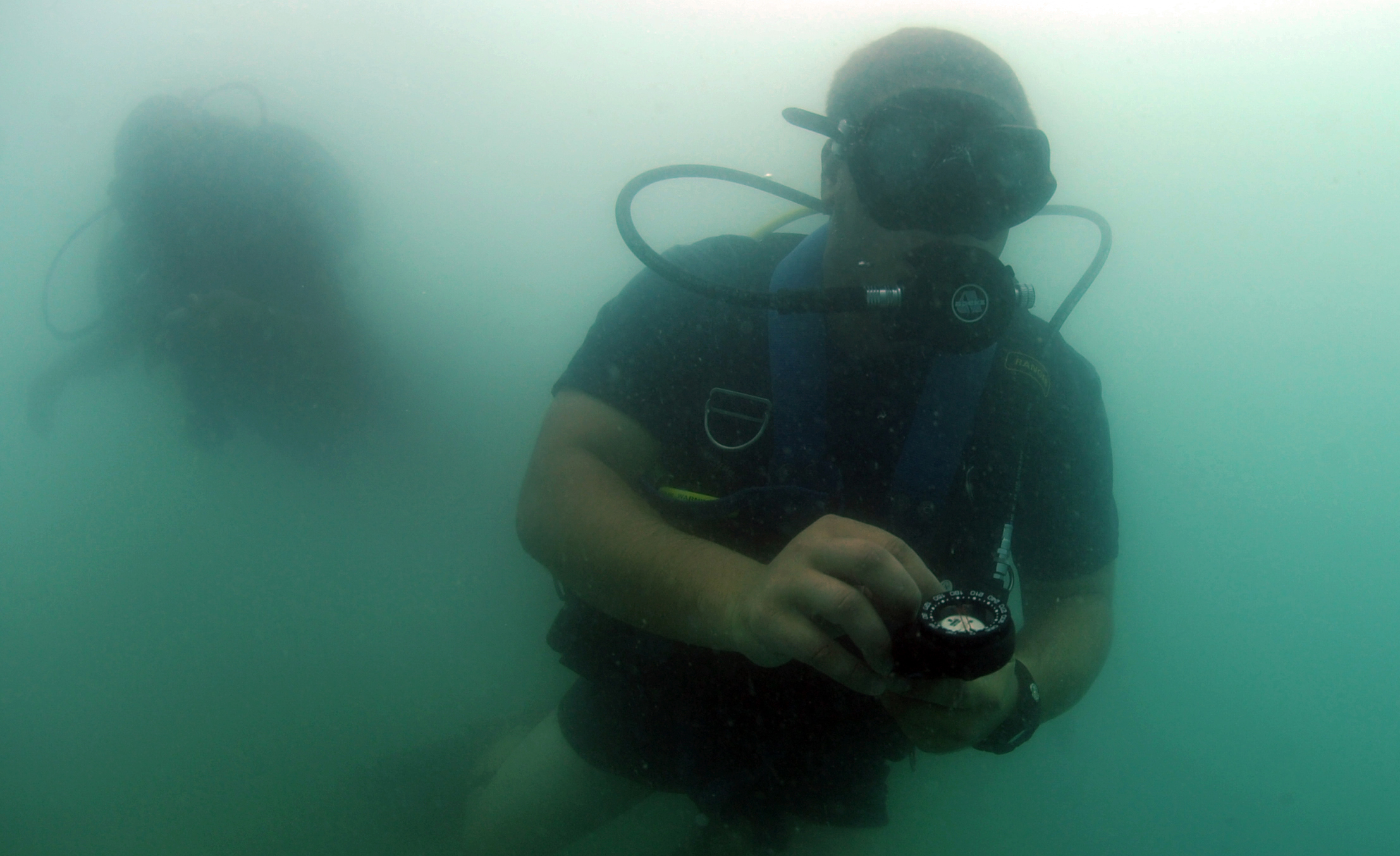 PORT ROYAL, Jamaica (July 22, 2011) Navy Diver 2nd Class Justin McMillen, assigned to Mobile Diving and Salvage Unit (MDSU) 2, checks his underwater compass as he makes his way to a designated area during joint diving operations with a member of the Jamaican Coast Guard. MDSU-2 is participating in Navy Diver-Southern Partnership Station, a multinational partnership engagement designed to increase interoperability and partner nation capacity through diving operations. (U.S. Navy photo by Mass Communication Specialist 1st Class Jayme Pastoric/Released)